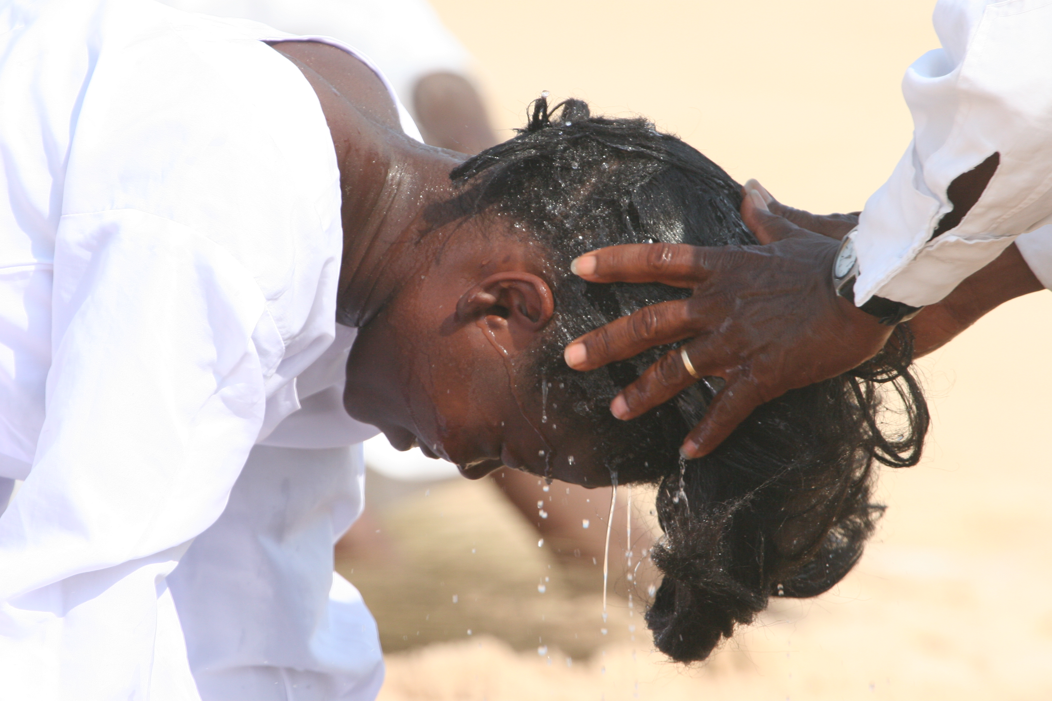 A woman being baptised in Benin.